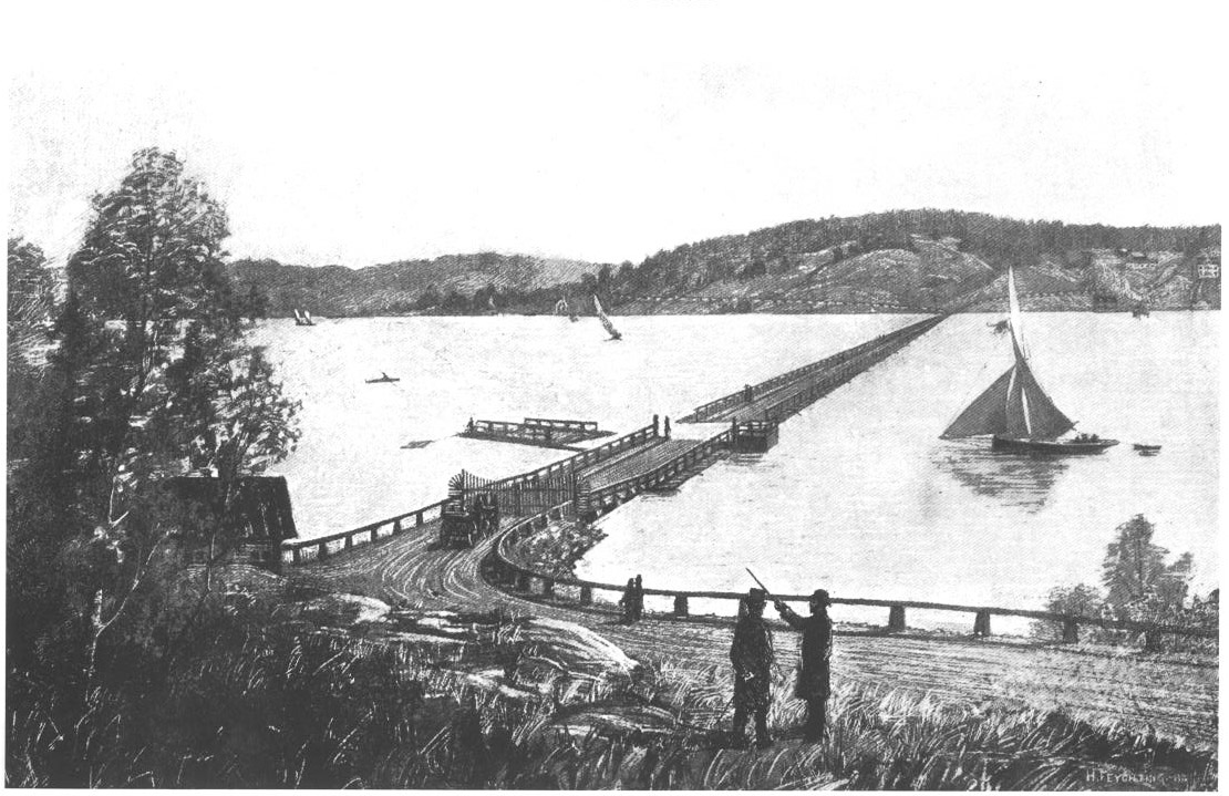 The second floating bridge built between Lidingö and Stockholm, 1884.